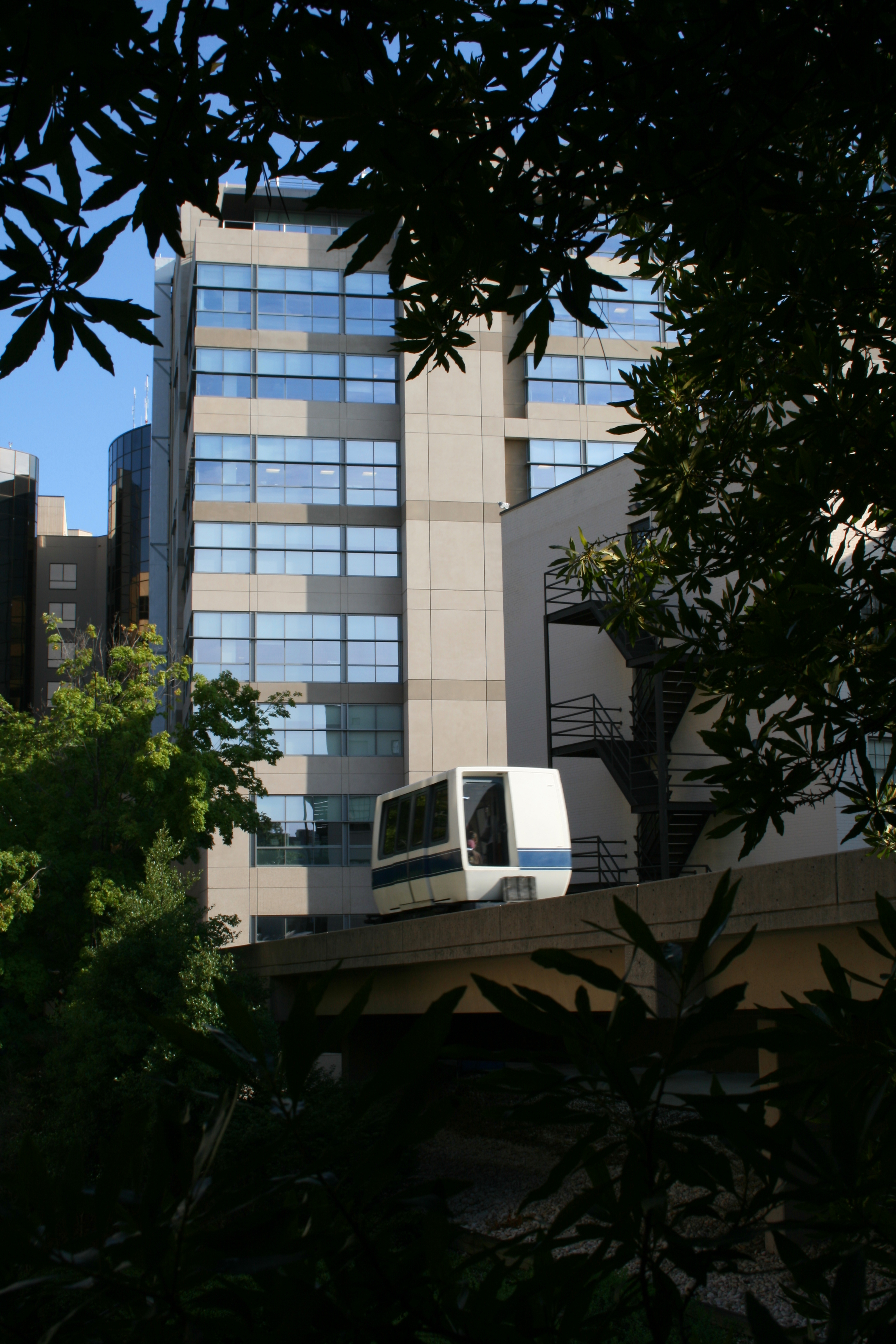 The Patient Rapid Transit (PRT) monorail train connecting parts of the Duke University Medical Center (DUMC) in Durham, North Carolina.